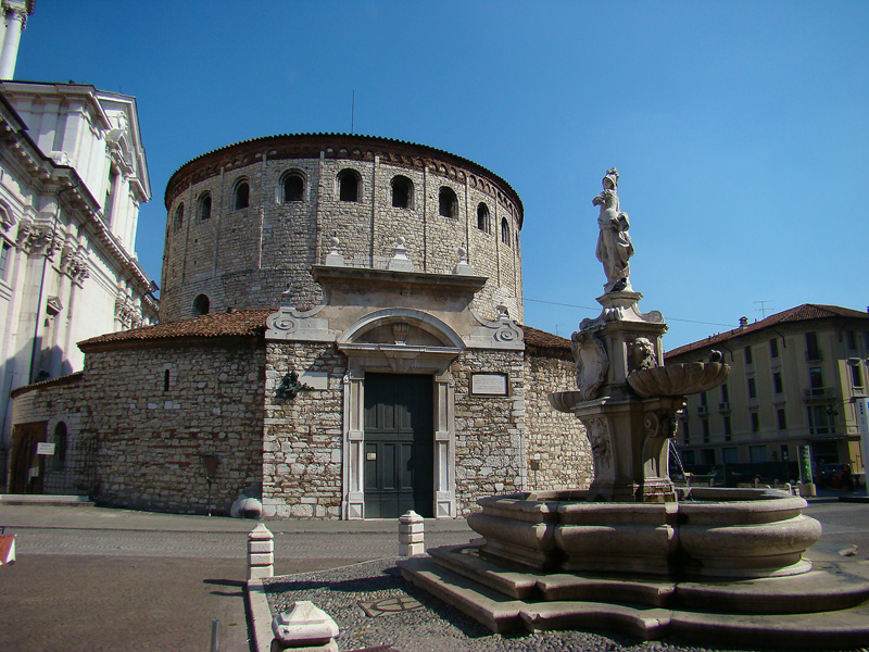 Duomo Vecchio, Brescia, Lombardy, Italy. On the left is part of the Duomo Nuovo next door, on the Piazza Paolo VI.